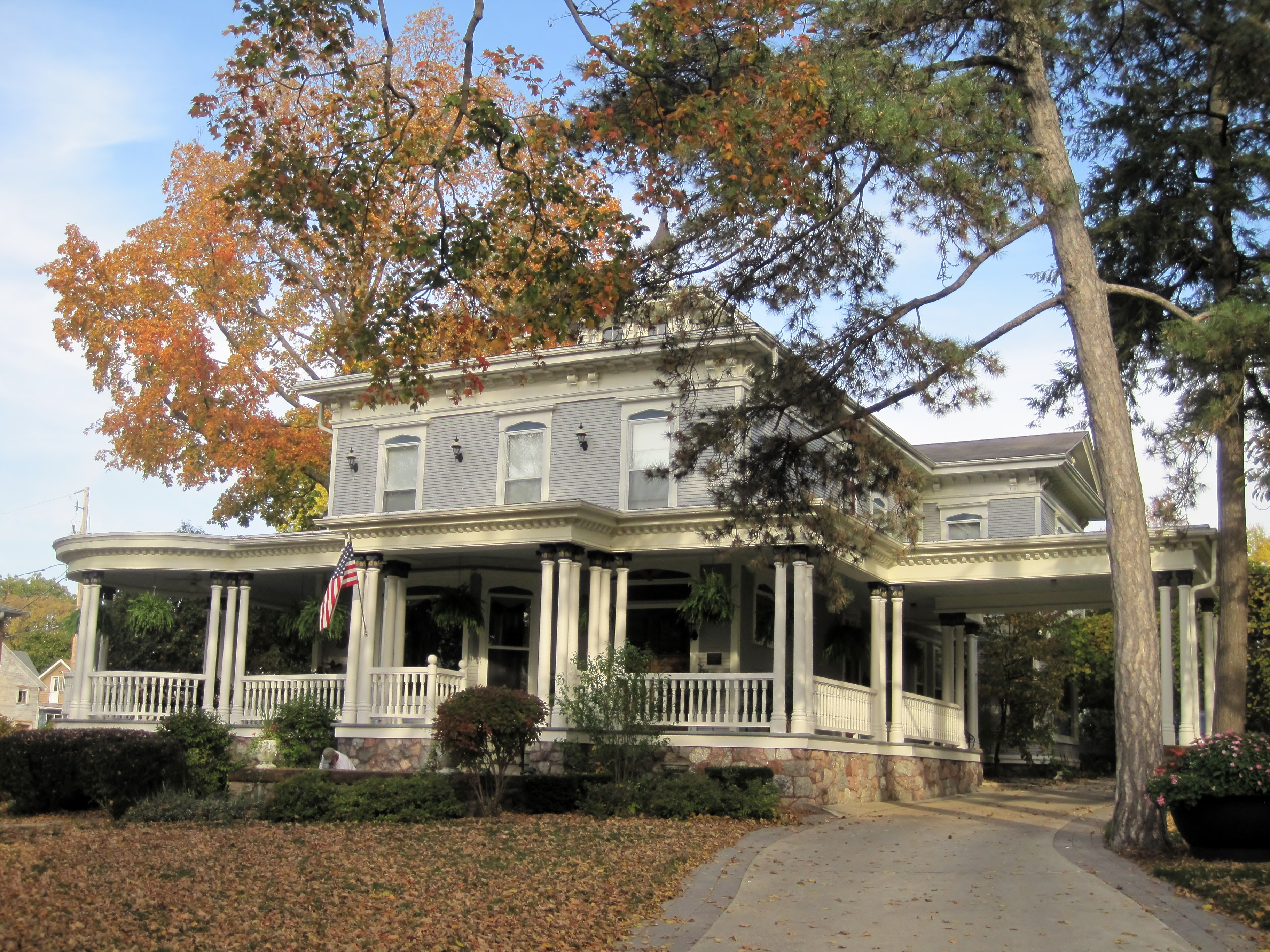 I (Teemu08 (talk)) took this image in October 2011